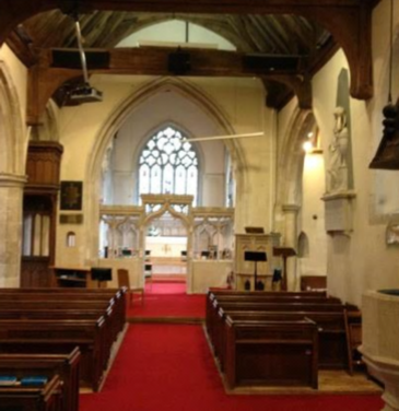 St Michaels under Brian Meardon